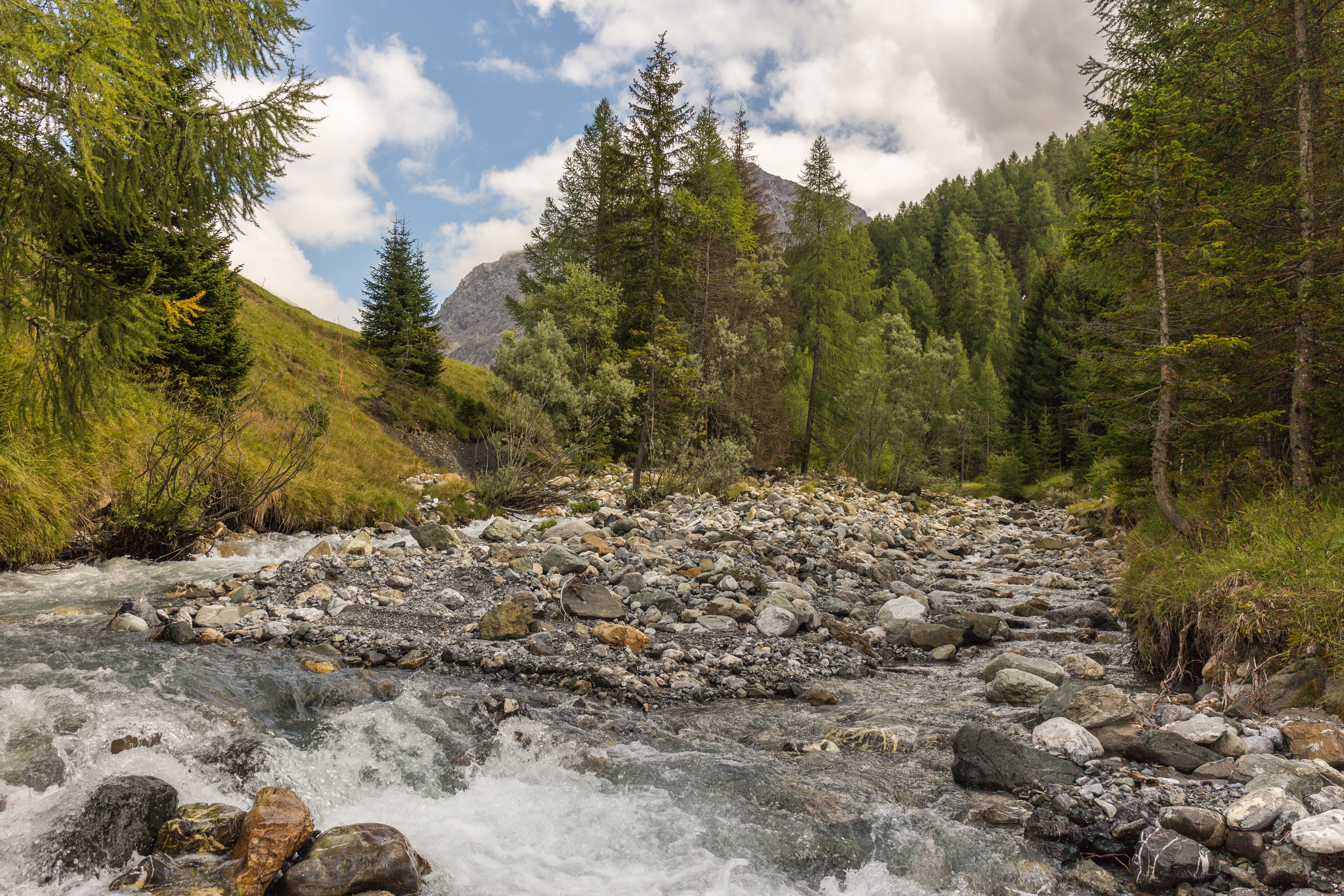 Mountain trip from Sapün (1600 meters) via Medergen (2000 meters) to bridge over Sapüner bach (1400 meters). Power acceleration in the Sapüner stream.